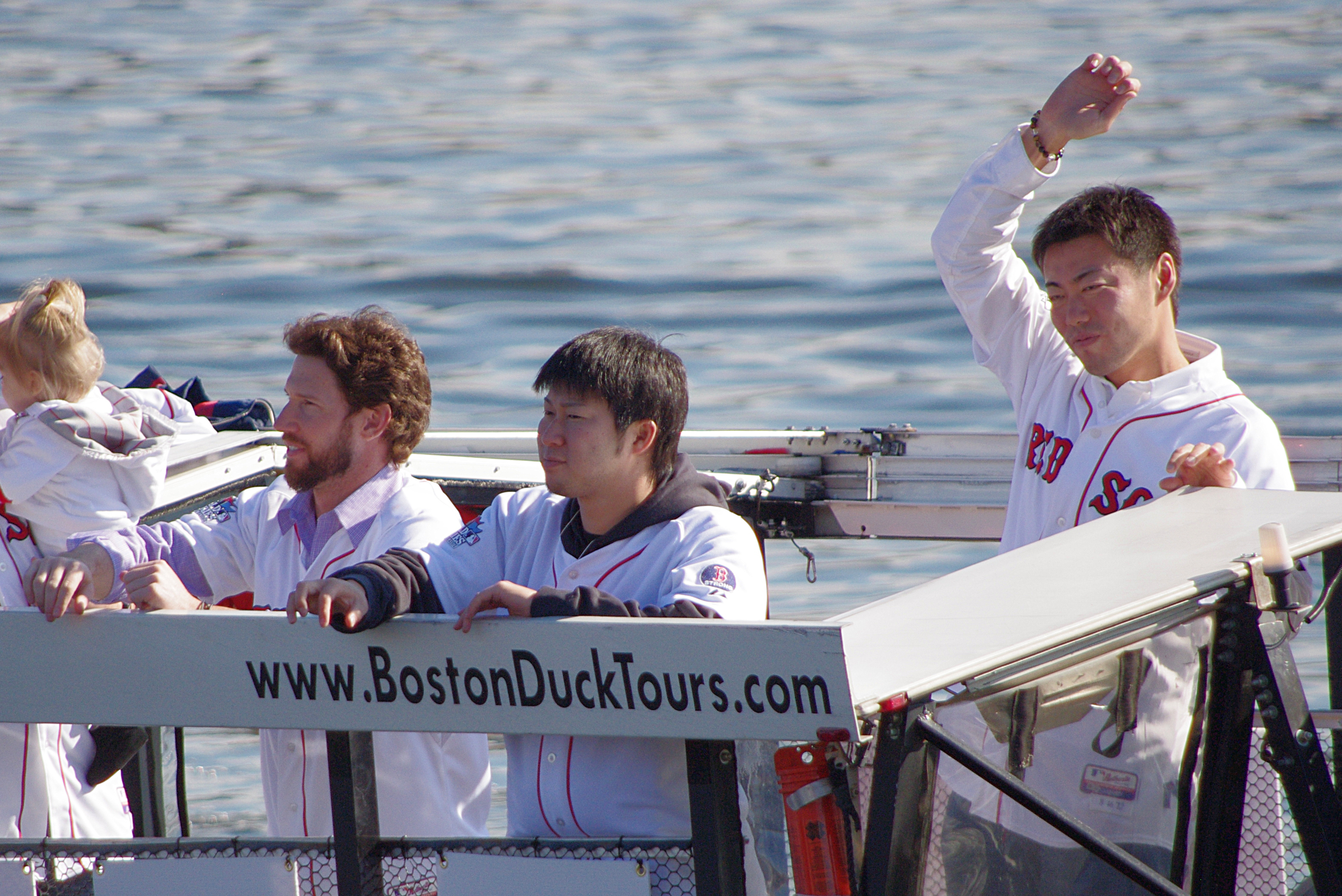 (From left to right) Craig Breslow, Junichi Tazawa and Koji Uehara